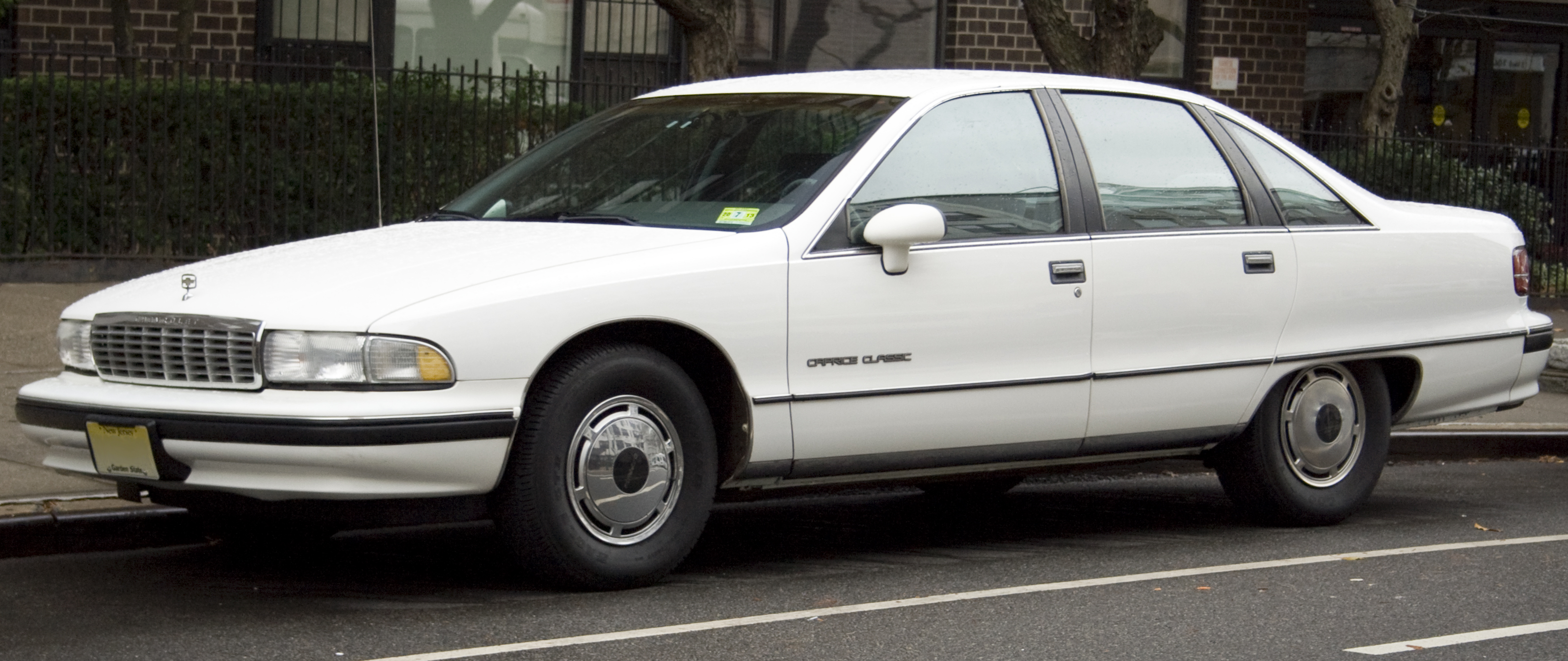 1991 Chevrolet Caprice Classic, 5.0 liter V8 and very basic specifications. These are becoming rarer now.